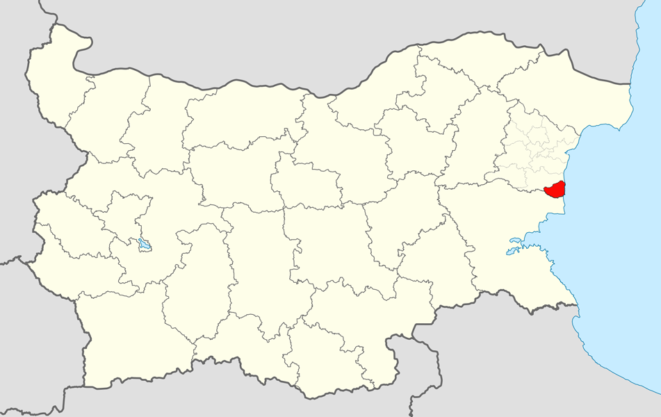 Location map of Byala Municipality within Varna Province, Bulgaria. Equirectangular projection, N/S stretching 130 %. Geographic limits of the map: N: 44.4° N S: 41.1° N W: 22.1° E E: 28.9° E